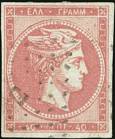 Solférino (Williams n° VII - 3)